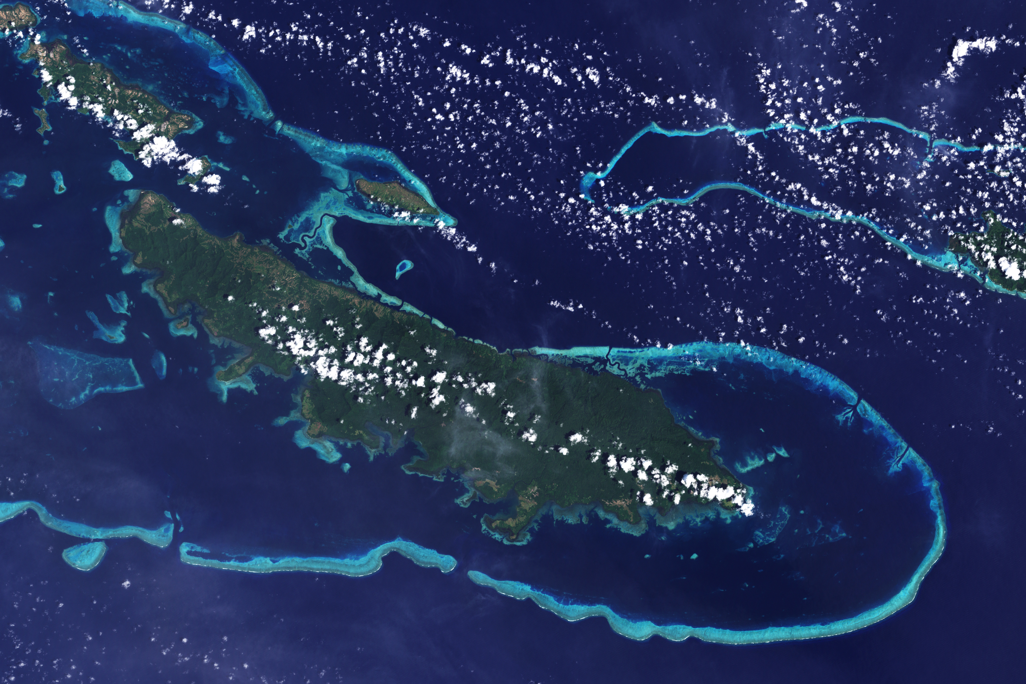 The lower corner of the scene shows part of the northwestern coast of the largest island in the archipelago, Vanatinai. Most of the island is densely covered in lowland rainforest, but clearing for agricultural land is widespread around the perimeter, especially in the northwest. The shallow waters covering an extensive network of reefs are electric blue. A sinuous channel of deep, clear water (image center) connects a partially enclosed lagoon north of Vanatinai with the bay south of Yeina Island.